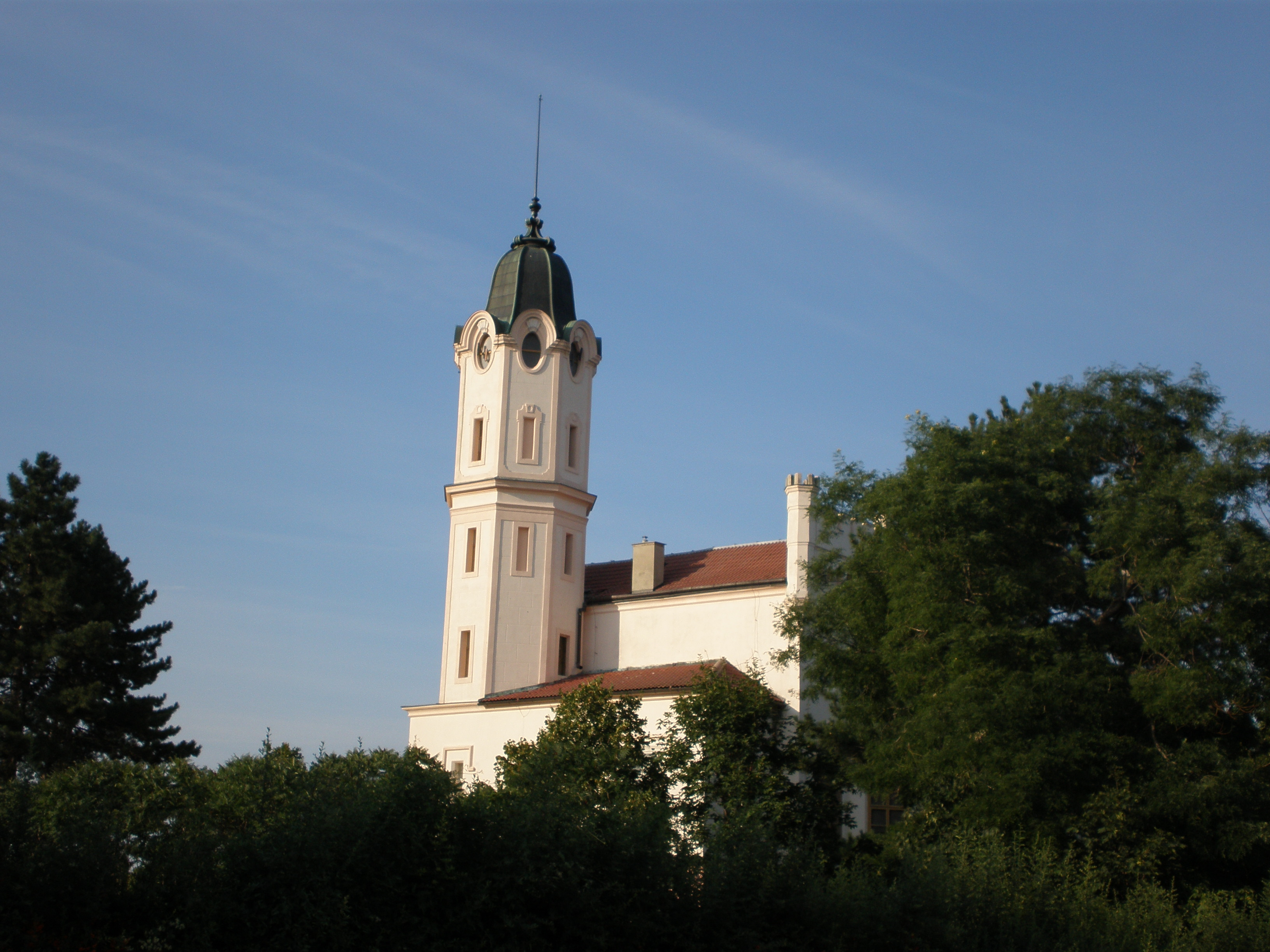 Castle in Ivanka